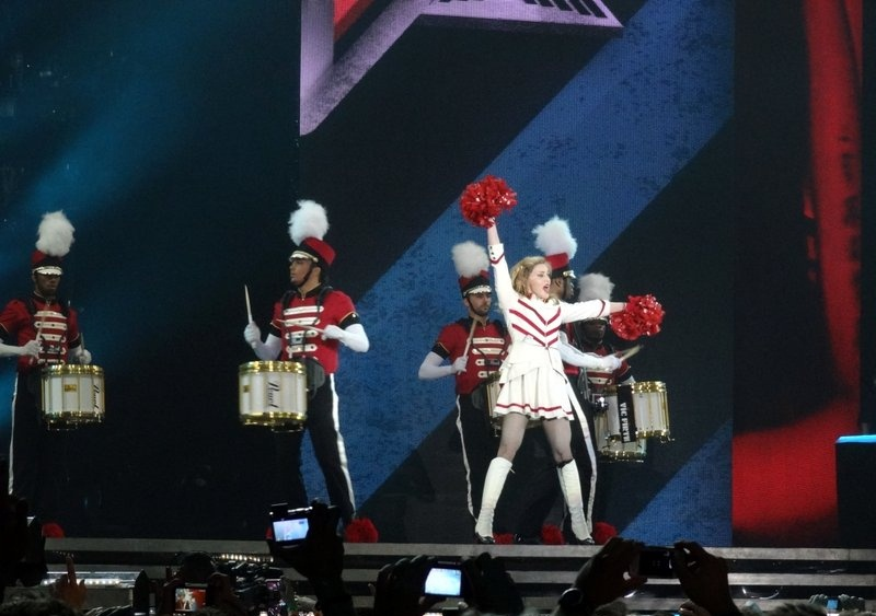 Madonna performing "Give Me All Your Luvin'" on her MDNA Tour.